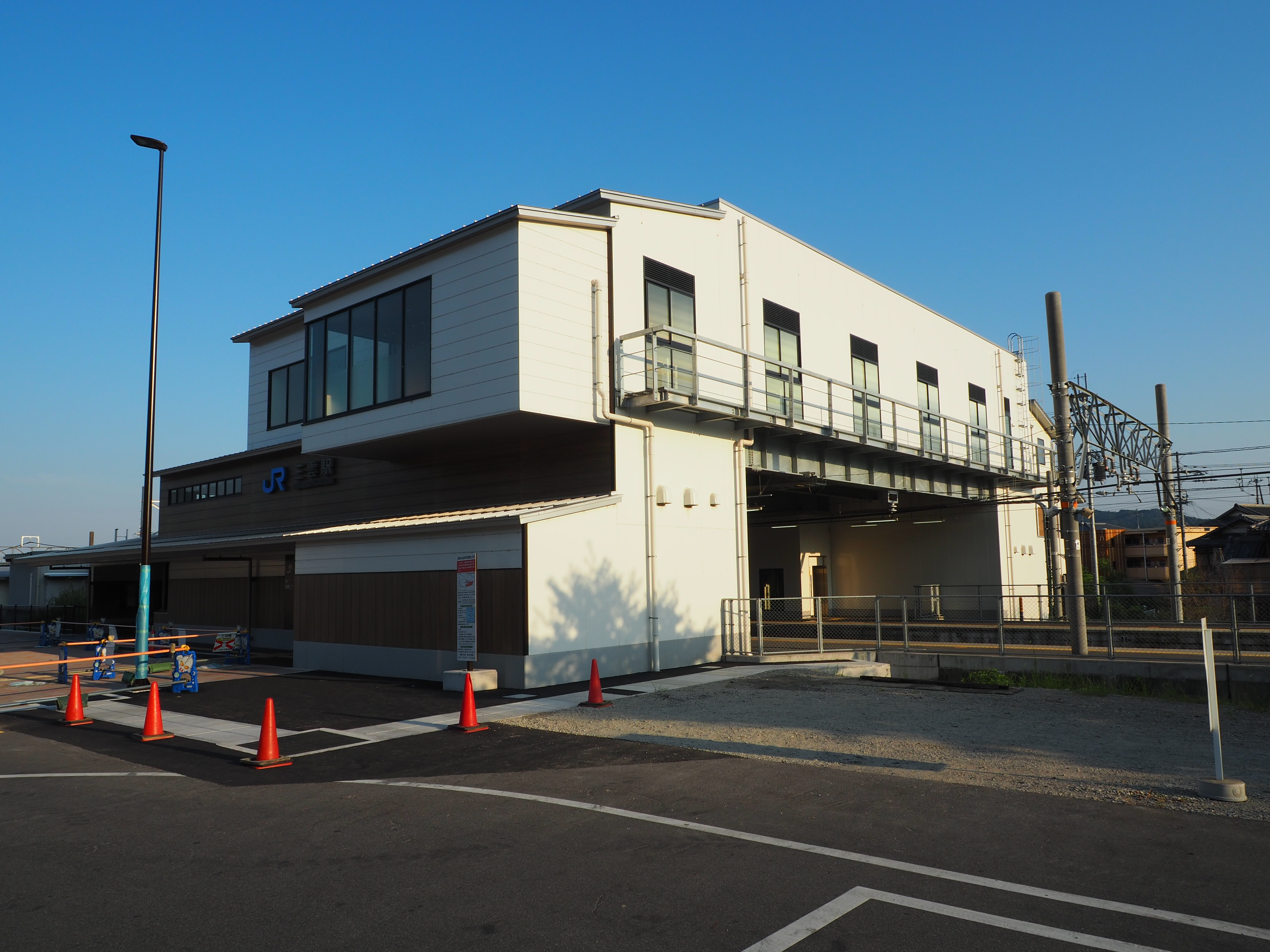 Mikumo Station building, Konan, Shiga